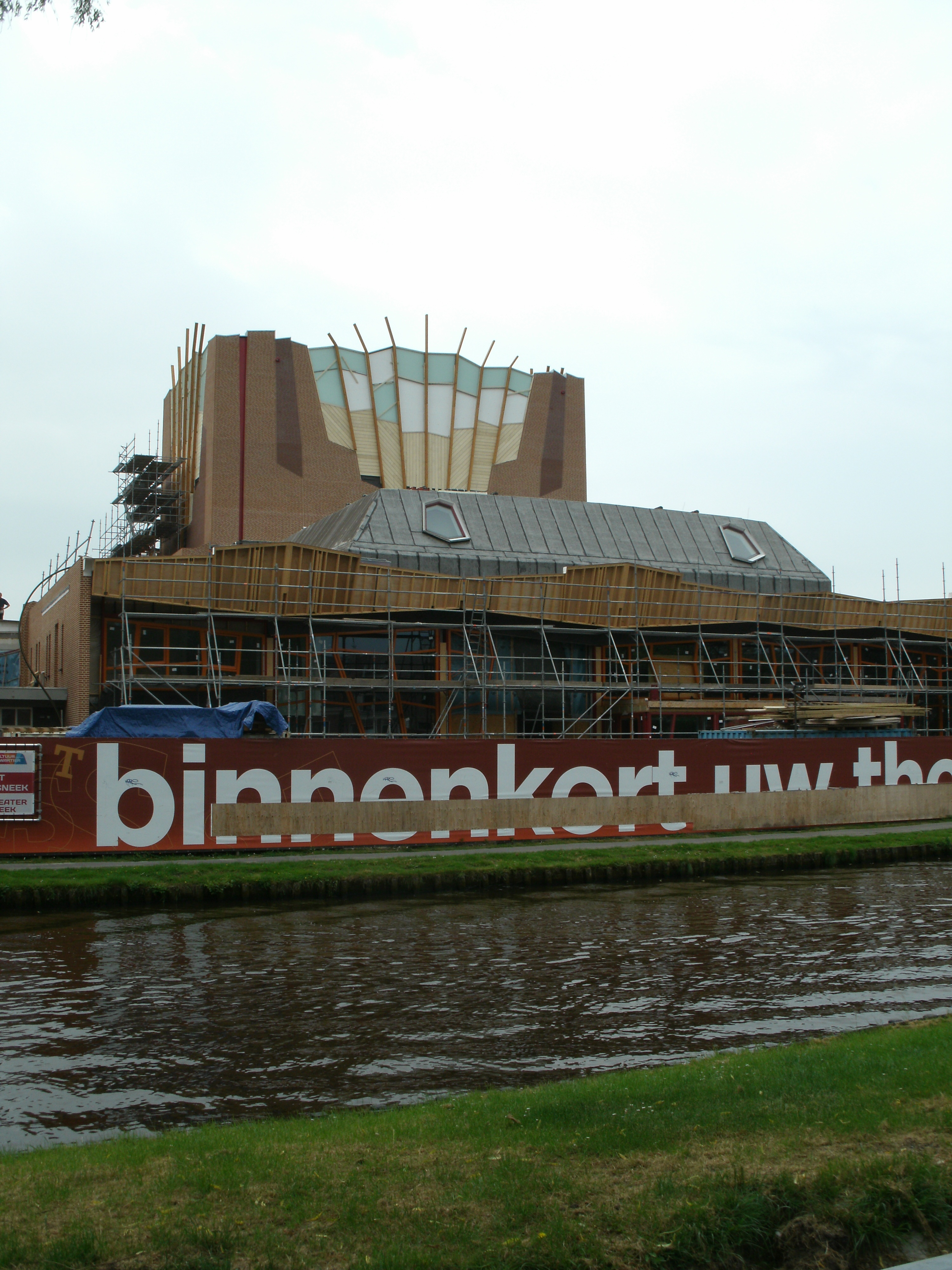 Theater Sneek in aanbouw, staand.